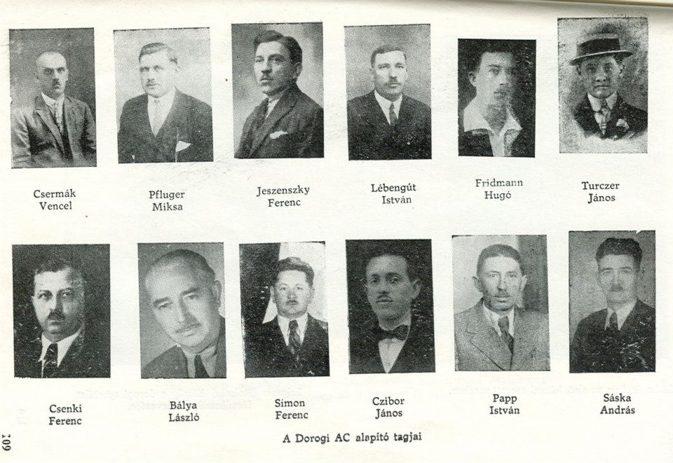 Fundators of FC Dorog in 1914